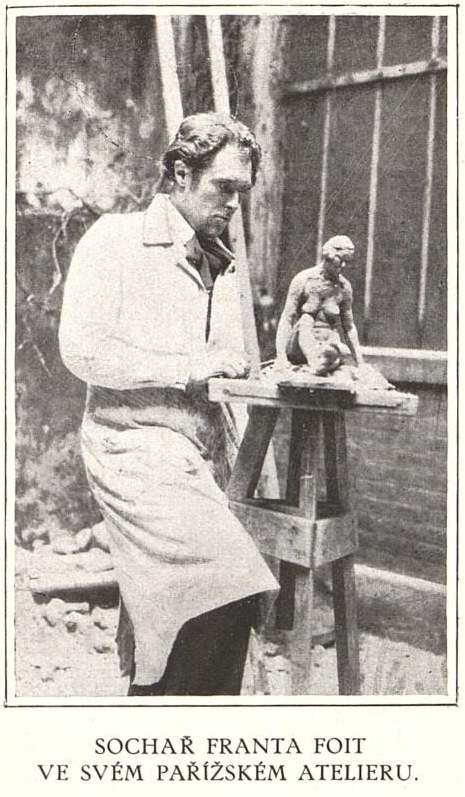 František Foit, Czech sculptor, 1925